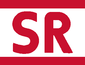 This is a logo of Sul Ross State University. The Bar SR Bar is a registered cattle brand belonging to the university.